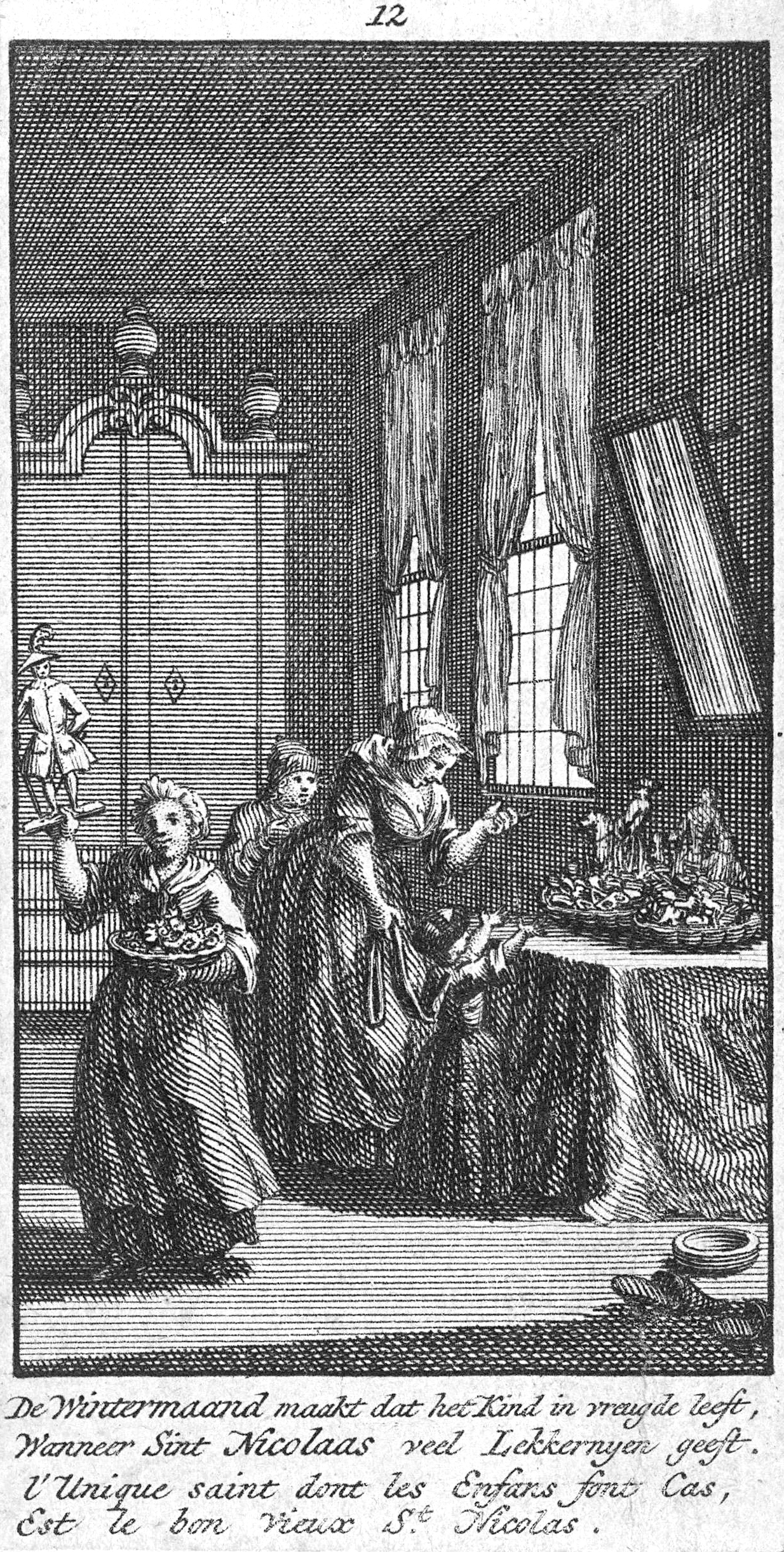 December: Sinterklaasavond 1736 - 1775